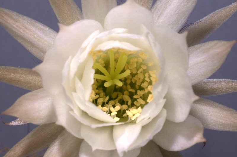 Echinopsis ancistrophora